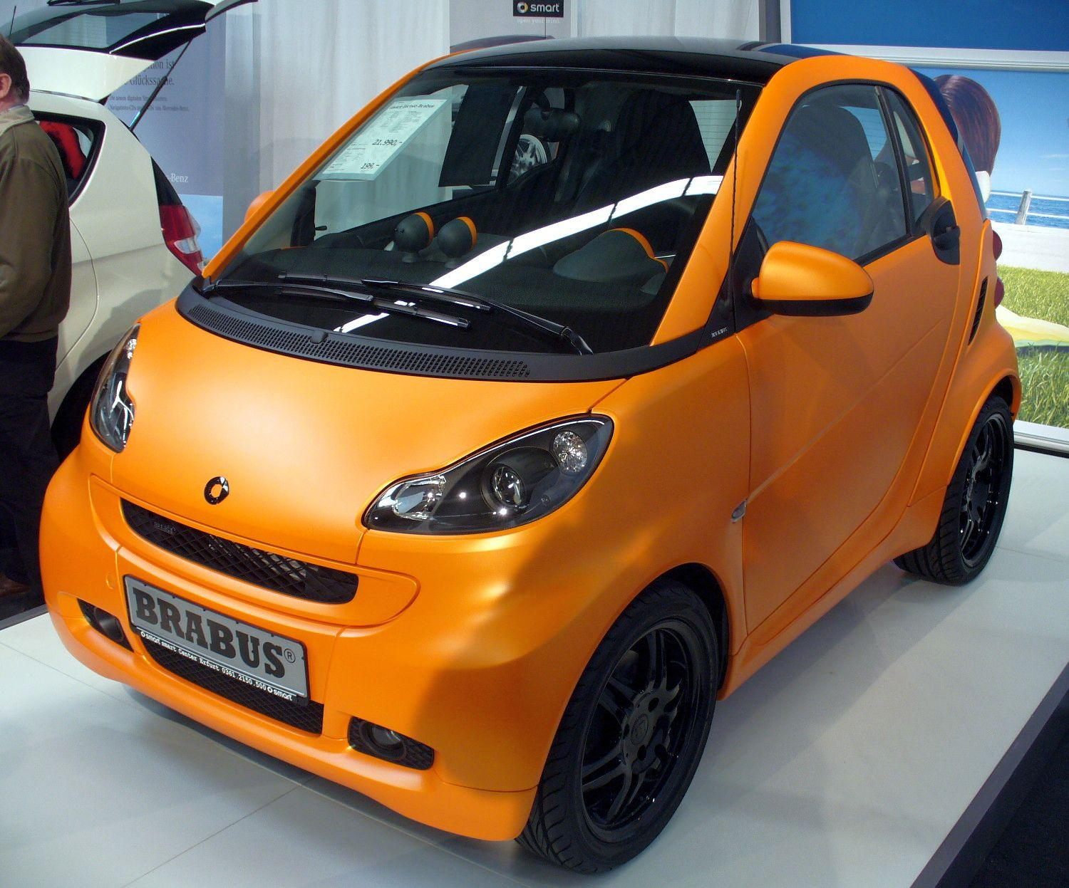 Smart Fortwo Brabus